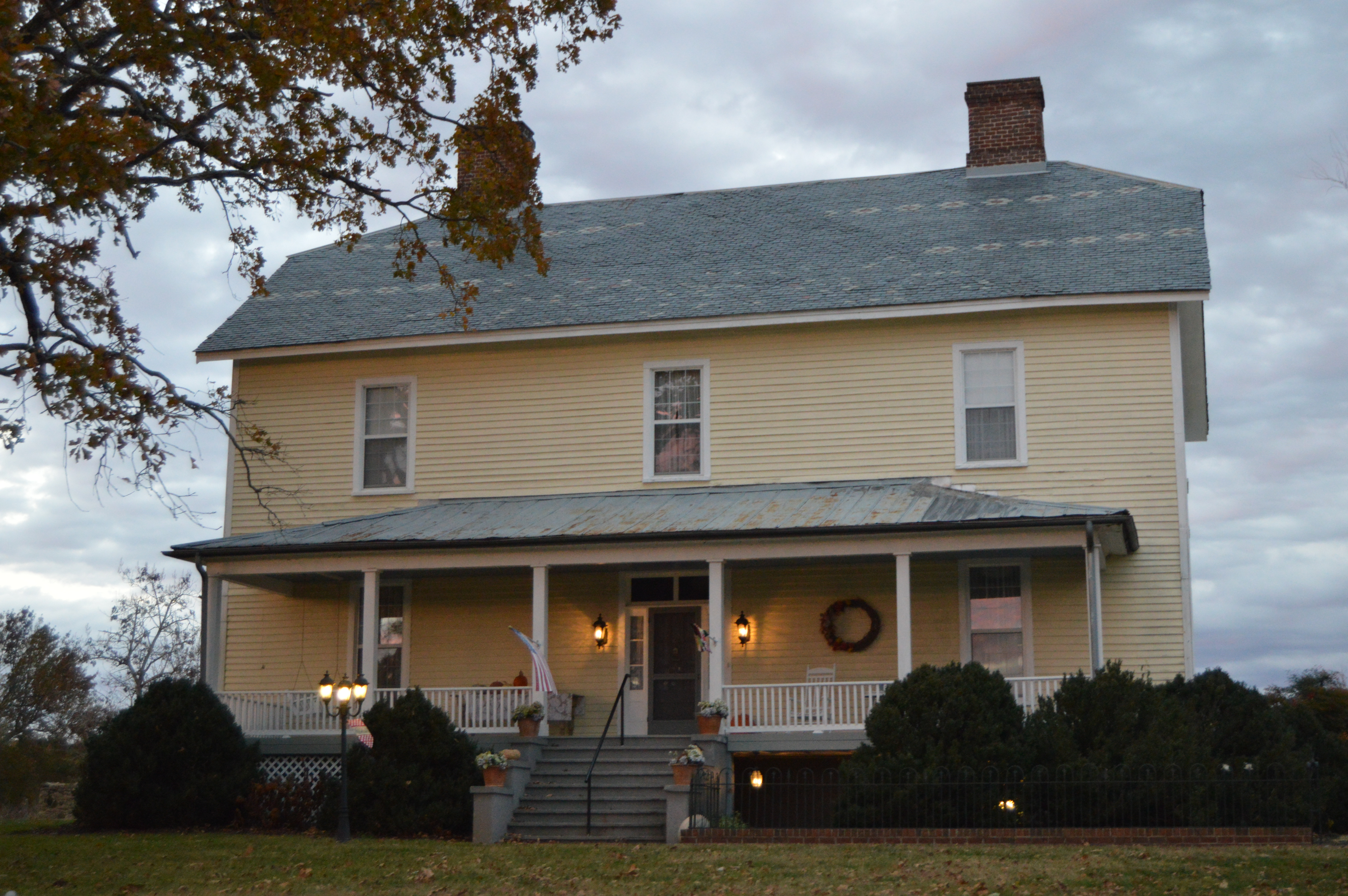 Front of the former Church Home for Aged, Infirm and Disabled Colored People (now a bed-and-breakfast), located at 236 Pleasant Grove Road west of Lawrenceville in Brunswick County, Virginia, United States. Built in 1881, it is listed on the National Register of Historic Places.